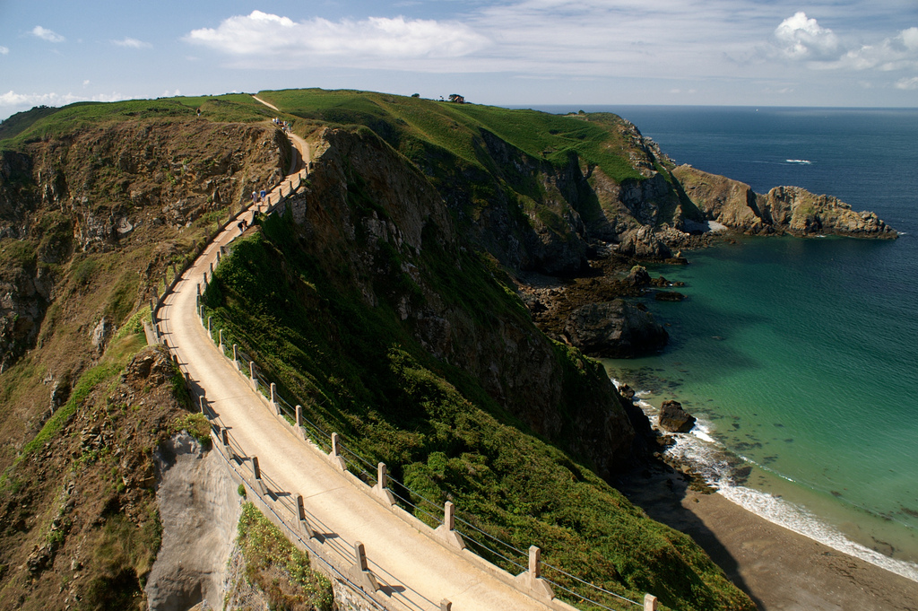 La Coupée is an isthmus on the channel island of Sark. It connects mainland Sark to a smaller peninsula known simply as 'Little Sark'. With 100m drops to the sea on each side the road is very much exposed to the elements. In this car free island, cyclists are required to dismount for the crossing. During the German occupation during WWII, prisoners of war paved the road and built barriers. Prior to this, the road was unguarded on either side. It's said that children from Little Sark going to school on the mainland would have to cross on all fours when it was windy.